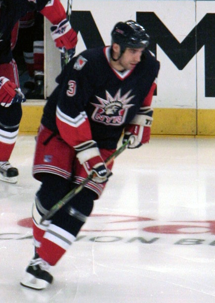 Czech ice hockey player Michal Rozsival